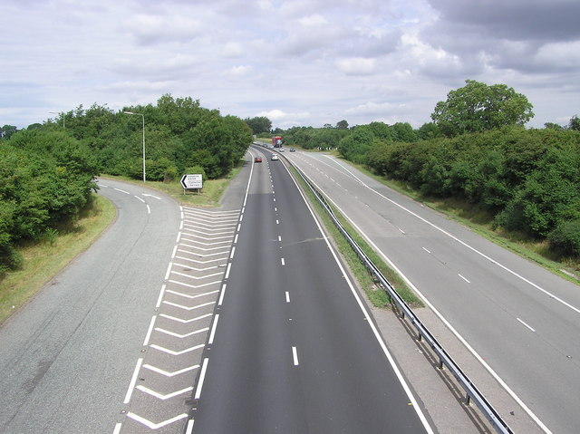 A1(T) junction. Looking north. From this point following the course of Dere Street Roman Road.